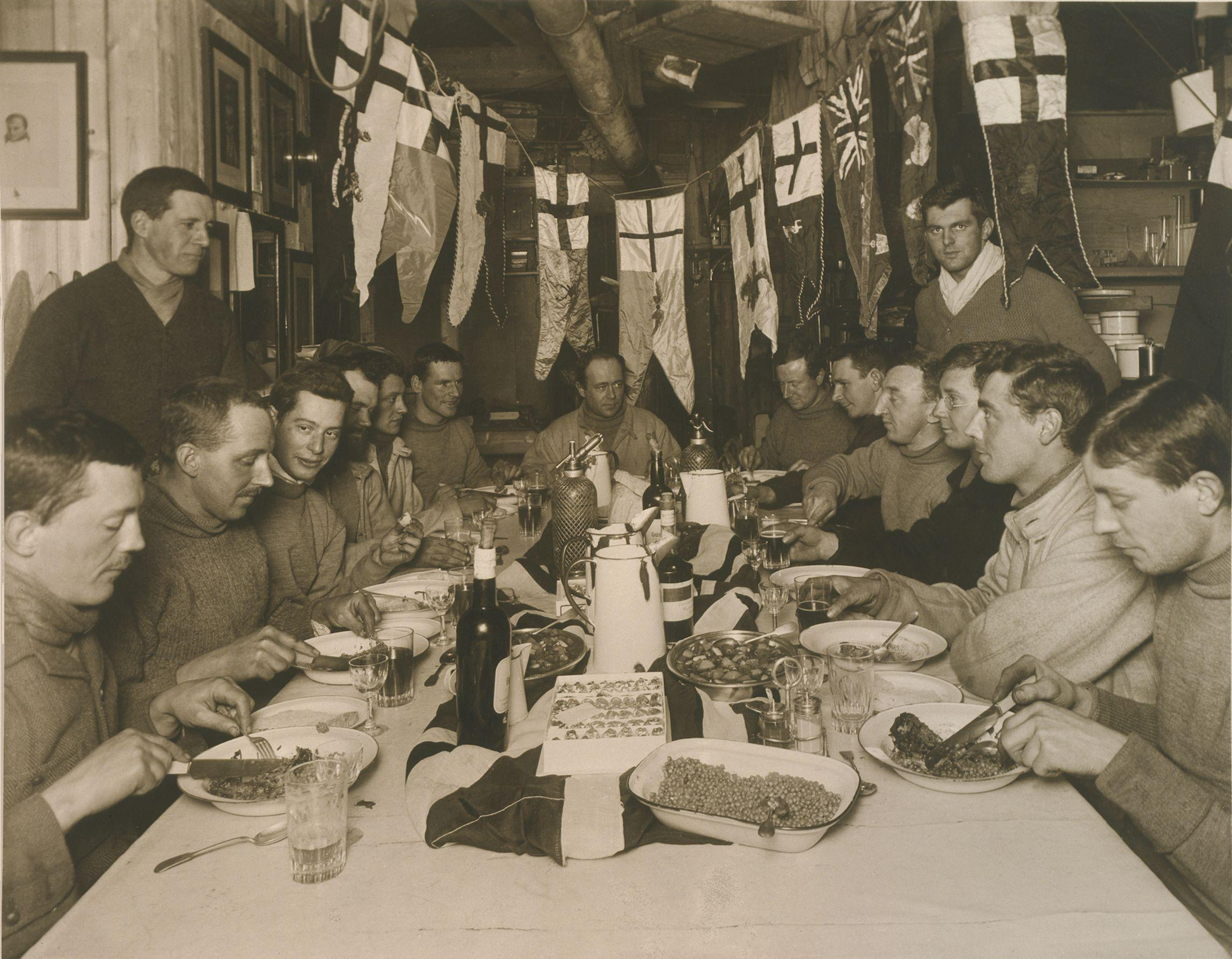 Captain Scott's Birthday Dinner, 6 June 1911, by Herbert George Ponting (died 1935). Cape Crozier, Ross Island, Antarctica Pictured: Edward Leicester Atkinson (1882-1929), Surgeon; member of British Antarctic Expedition, 1910-1913. Henry Robertson ('Birdie') Bowers (1883-1912), Polar explorer. Apsley George Benet Cherry-Garrard (1886-1959), Polar explorer. Bernard C. Day (1884-1934), Motor engineer and member of British Antarctic Expedition, 1910-1913. Frank Debenham (1883-1965), Geologist; Founder Director of Scott Polar Research Institute. Tryggve Gran (1889-1980), Norwegian ski instructor and aviator; member of British Antarctic Expedition, 1910-1913. Cecil Henry Meares (1877-1937), Lieutenant-Colonel, linguist and Antarctic explorer. Edward Ratcliffe Garth Russell Evans, 1st Baron Mountevans (1880-1957), Admiral; Antarctic explorer. Edward W. Nelson (1883-1923), Biologist; member of British Antarctic Expedition, 1910-1913. Lawrence Edward Grace Oates (1880-1912), Antarctic explorer. Robert Falcon Scott (1868-1912), Antarctic explorer. S Sir George Clarke Simpson (1878-1965), Meteorologist; member of British Antarctic Expedition. (Thomas) Griffith Taylor (1880-1963), Geologist; member of British Antarctic Expedition, 1910-1913. Edward Adrian Wilson (1872-1912), Naturalist and Antarctic explorer. Sir Charles Seymour Wright (1887-1975), Geophysicist; member of British Antarctic Expedition, 1910-1913. All images in this batch have been confirmed as author died before 1939 according to the official death date listed by the NPG.